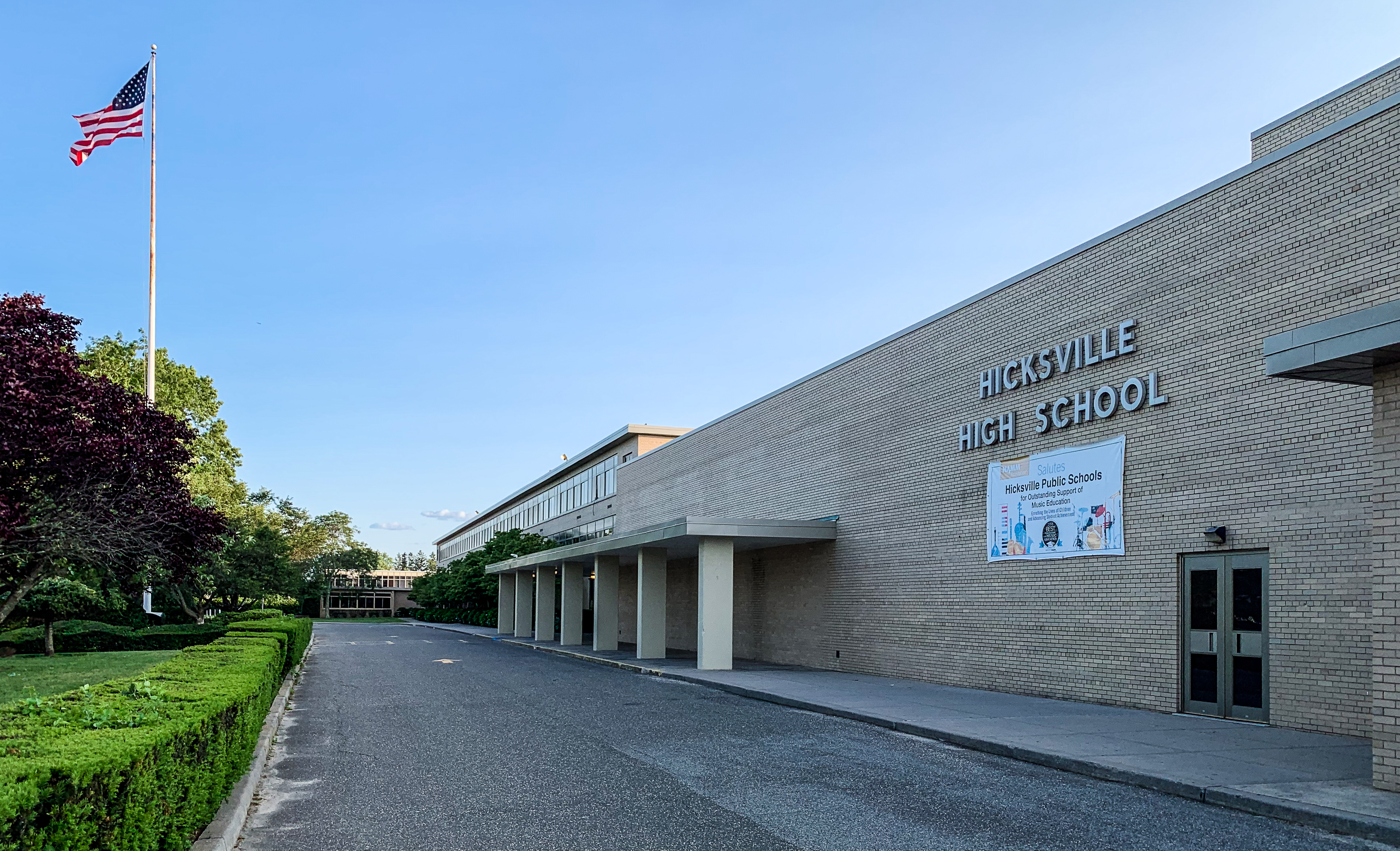 Hicksville High School, New York